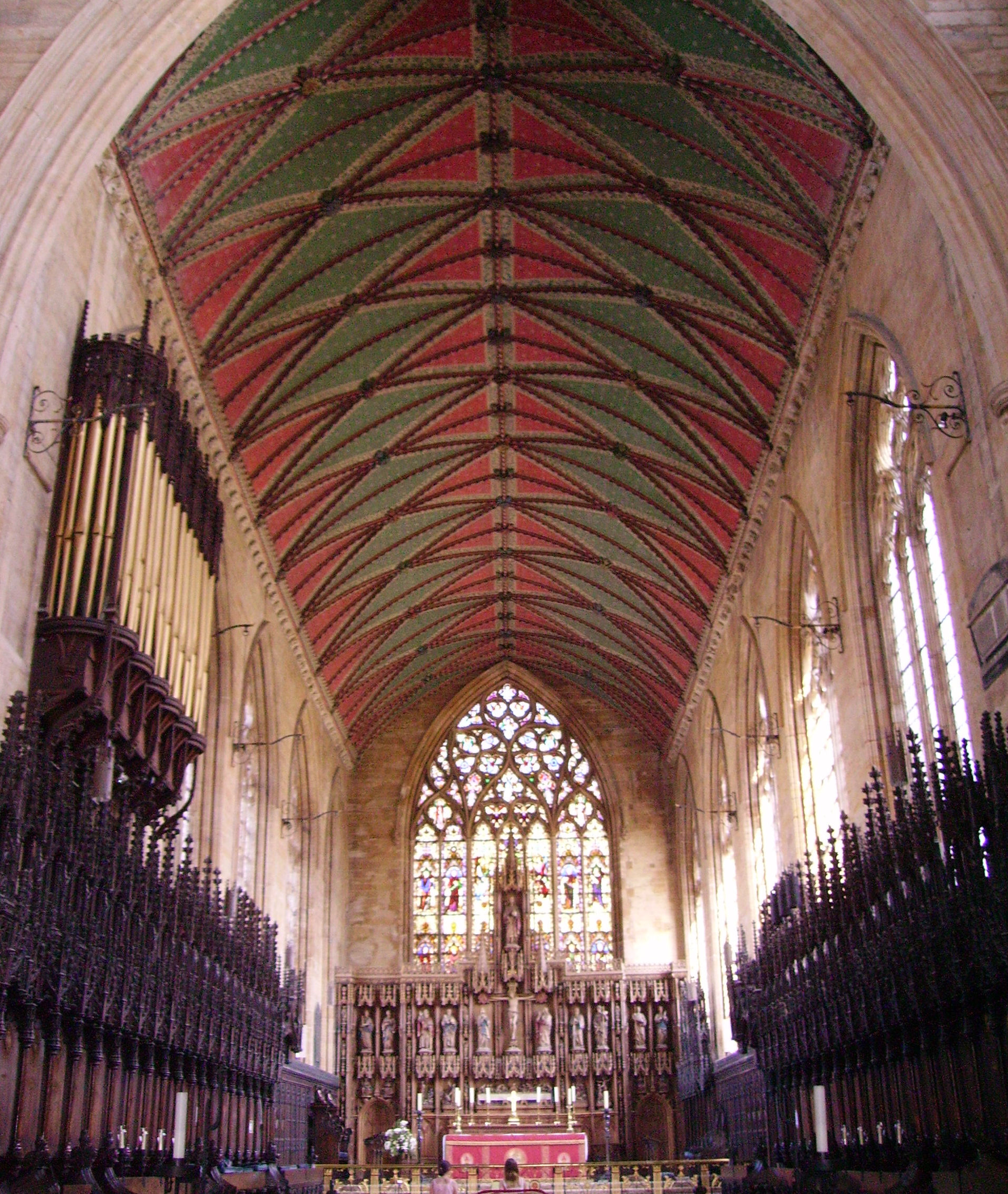 inside of Boston Stump in Lincolnshire, United Kingdom